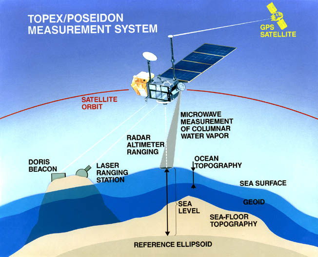 The accurate determination of the ocean height is made by first characterizing the precise height of the spacecraft above the center of the Earth. This is achieved through a technique called "precise orbit determination," of which satellite-tracking information is the most important ingredient.The second component of the ocean height measurement is the range from TOPEX/Poseidon to the ocean surface. TOPEX/Poseidon carried two radar altimeters for providing this information. To take a measurement, an onboard altimeter bounces microwave pulses off the ocean surface and measures the time it takes the pulses to return to the spacecraft.